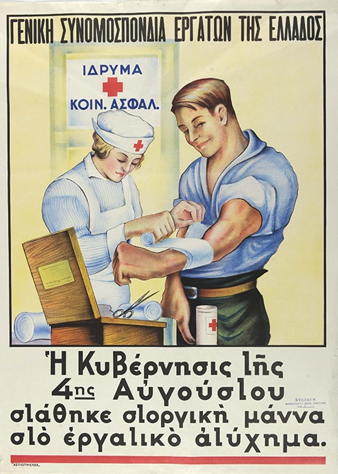 Greek propaganda poster of Ioannis Metaxas' dictatorship, c. 1936.